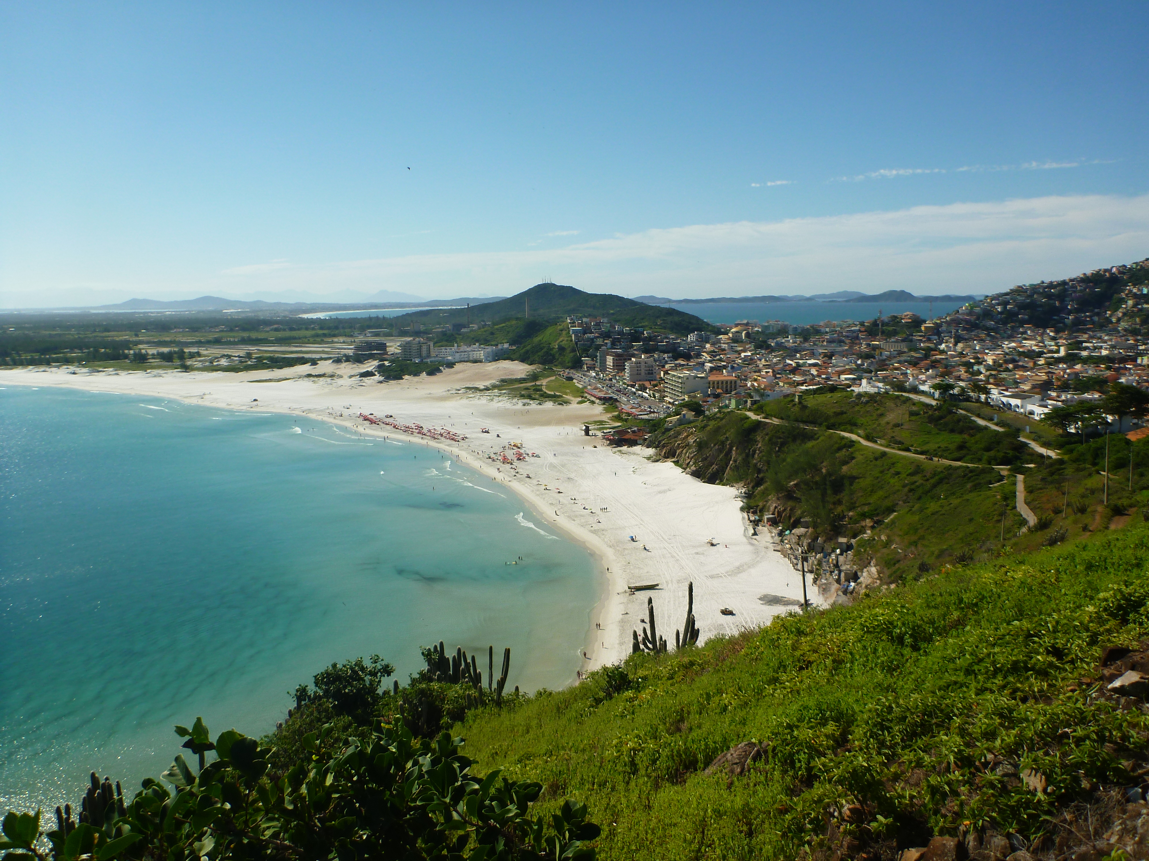 Great beach of Arraial do Cabo